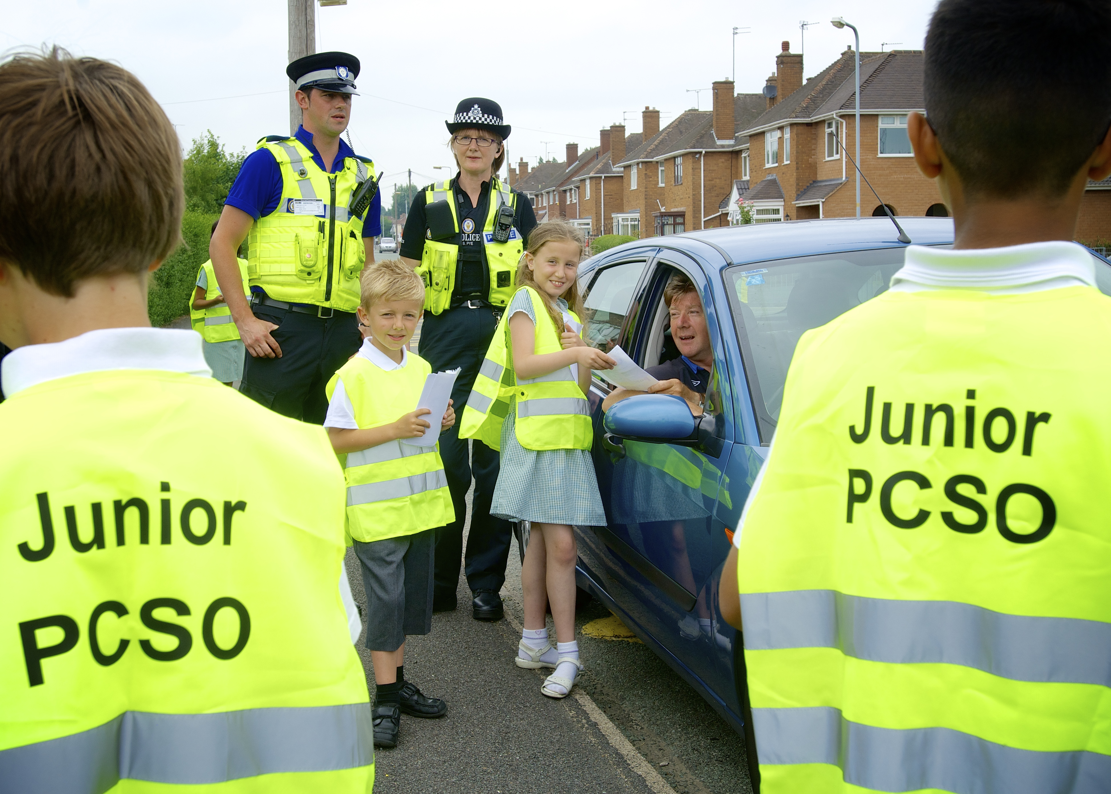 Perry Hall Junior School children donned their Junior PCSO tabbards to tackle inconsiderate parking outside school. Time-pushed parents are often tempted to park on double yellow or zig-zag lines, but don't think how dangerous it can make the road for other pupiuls to cross